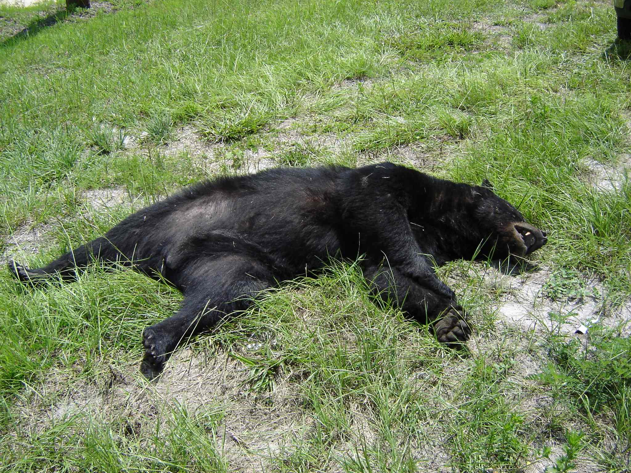 A 300 lb. Male Florida Black Bear (Ursus americanus) — in Ocala National Forest, northeastern Florida. Killed By Vehicle off of Florida State Road 40. (Image credit - USFS/Carrie Sekerak)